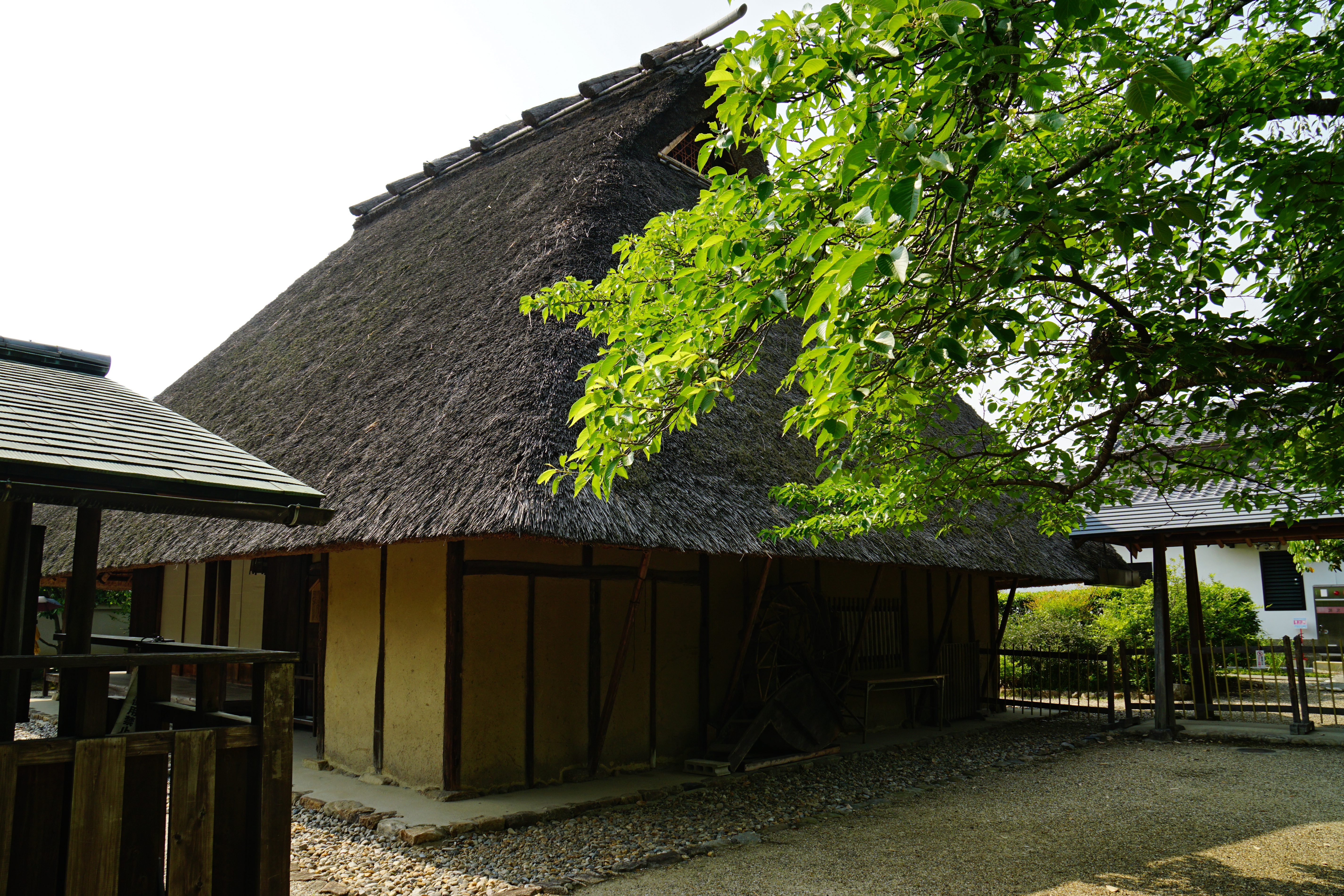 Hokke-ji in Nara, Nara prefecture, Japan.